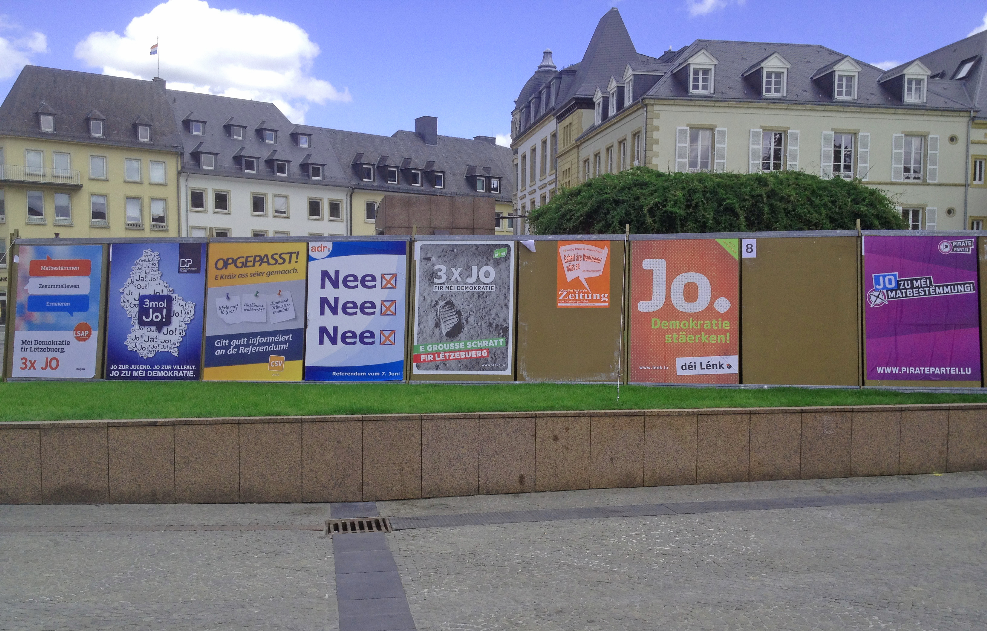 Poster for the referendum on Knuedler (City of Luxembourg) on June 7, 2015, in the Grand-Duchy of Luxembourg.